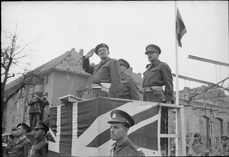 Germany Under Allied Occupation Major General Lyne, Commander 7th Armoured Division, with Brigadier I W K Sparling, taking the salute during the entry of British forces into Berlin.